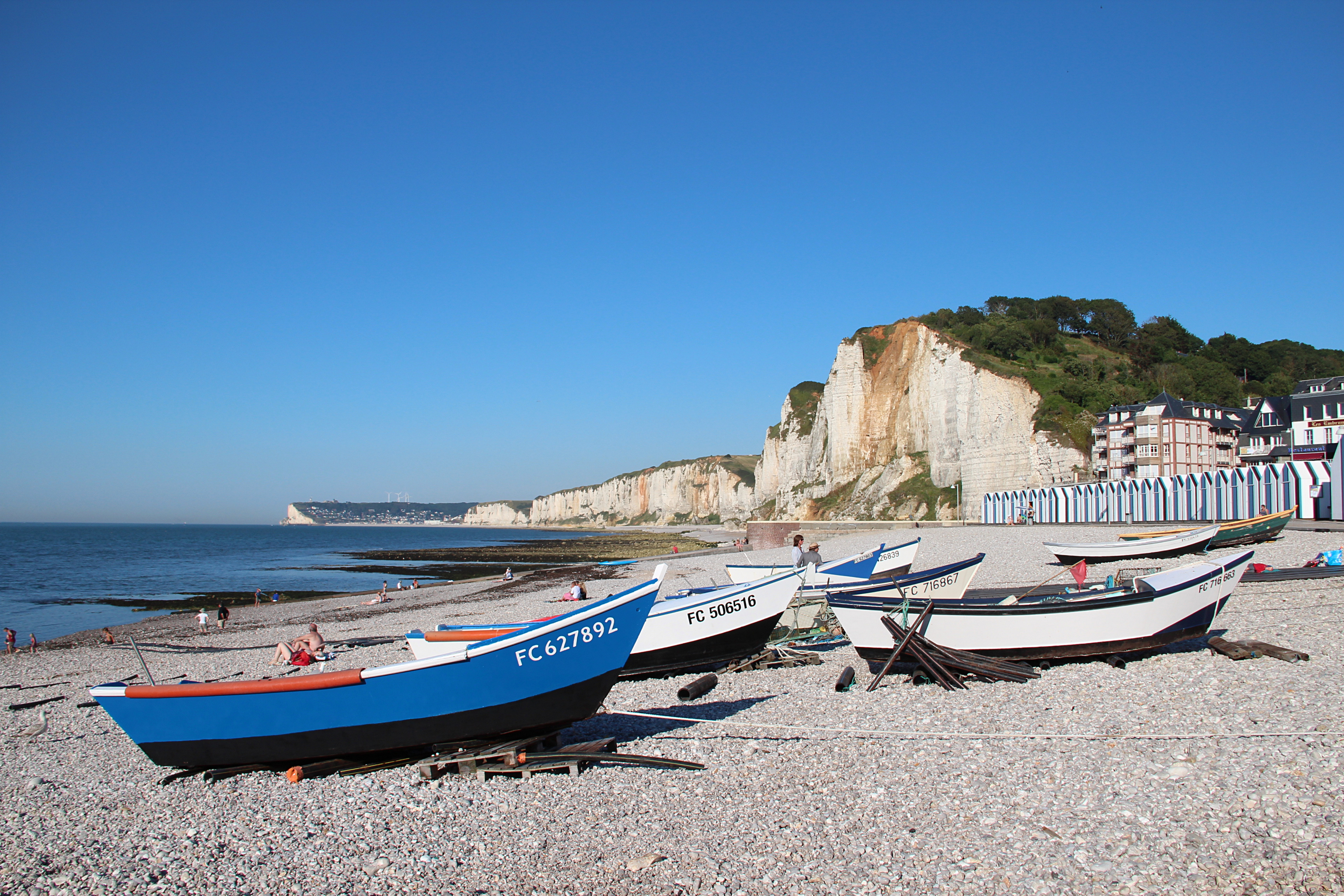 Yport (Seine-Maritime - France), the beach and cliffs upstream.